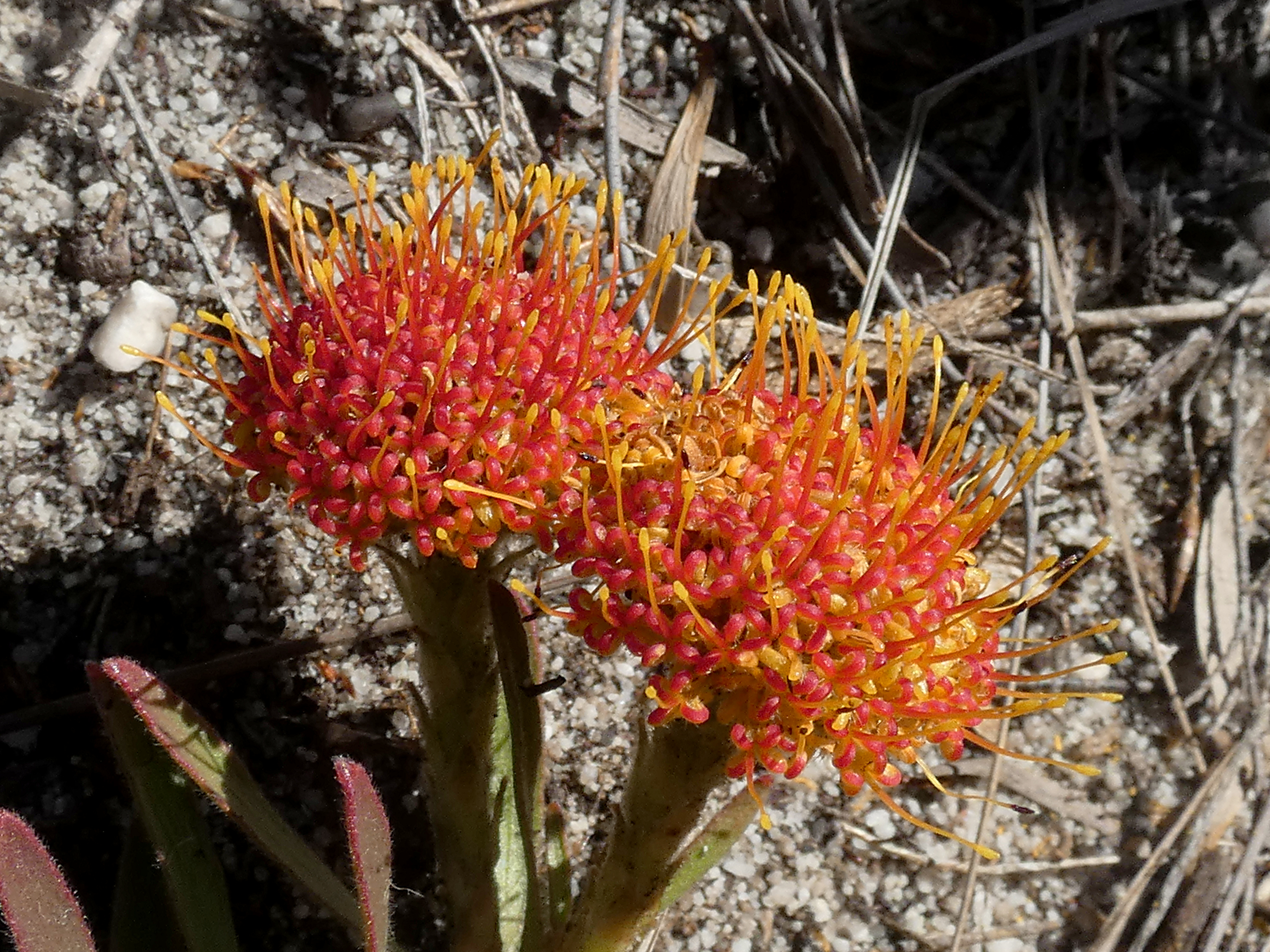 yellow-trailing pincushion Leucospermum prostratum, photographed at Hangklip, near Pringlebaai, Western Cape, South-Africa